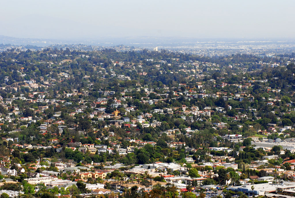 Description: view of the Silver Lake neighborhood Date: 4/13/07 Location: Los Angeles, CA David Liu